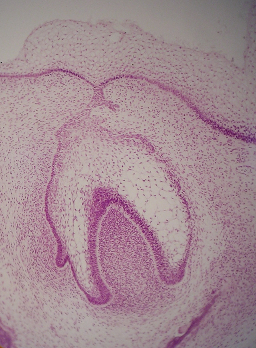 Histology of developing tooth with no labels. Cap stage is shown. Photo taken by Dozenist.